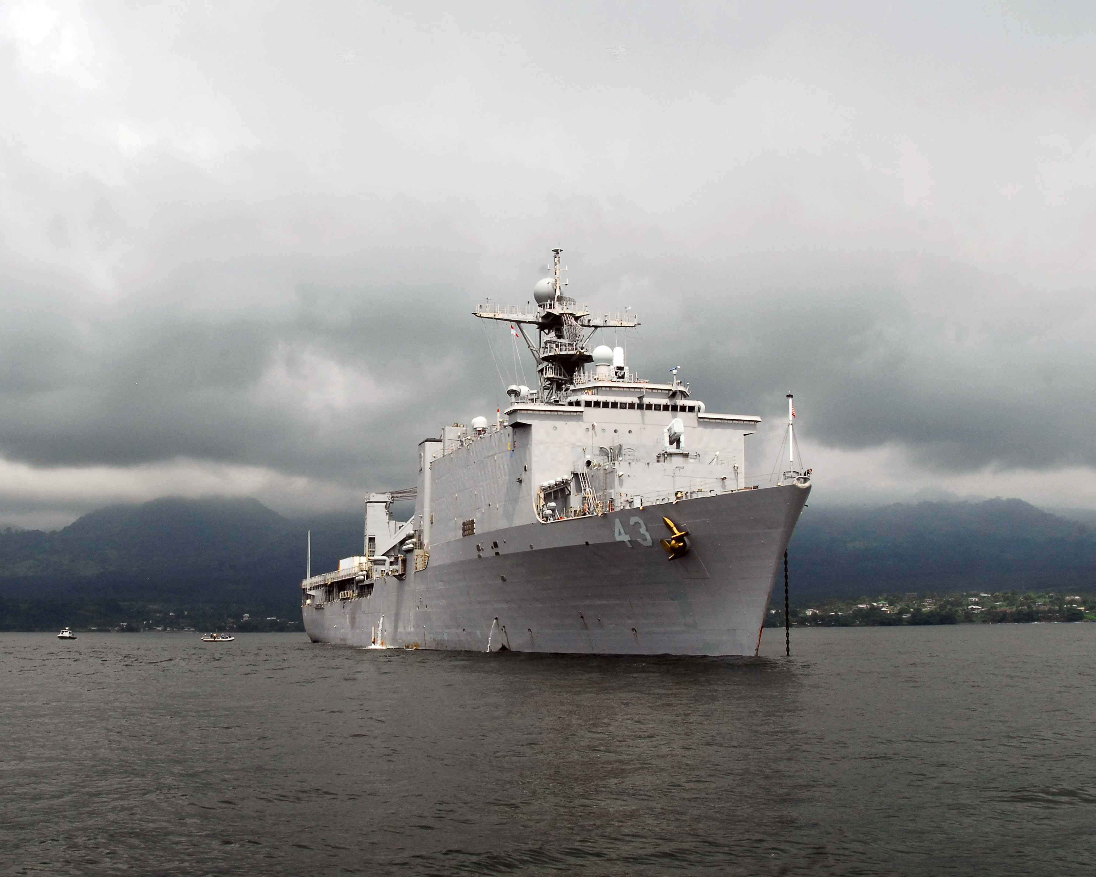 The amphibious dock landing ship USS Fort McHenry (LSD 43) sits anchored off of the coast of Limbe. Africa Partnership Station (APS) is aboard Fort McHenry conducting training for Cameroonian Sailors on maritime safety and security. APS is scheduled to bring international training teams to Senegal, Liberia, Ghana, Cameroon, Gabon, and Sao Tome and Principe, and will support more than 20 humanitarian assistance projects in addition to hosting information exchanges and training with partner nations during its seven-month deployment.